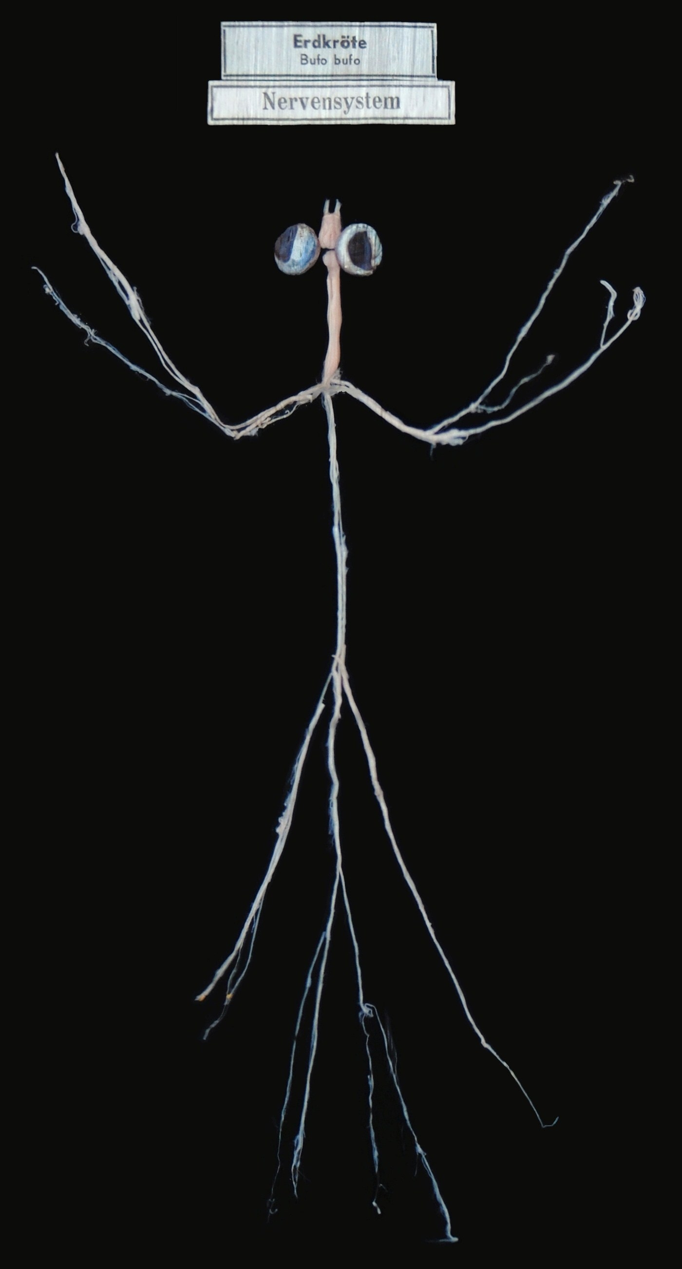 Nevous system of a common toad (bufo bufo) in the Natural History Museum of Vienna. The object was conservated in a glass filled with a special conservation liquid; because of the difficult light situation I had to edit the image strongly. Taxidermy by K. Bilek, 1957.